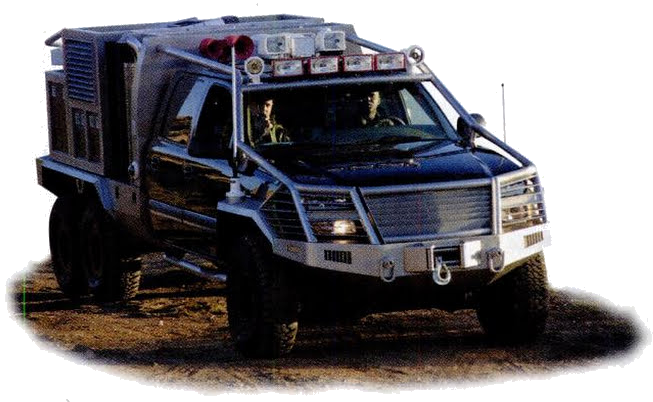 SmarTruck II